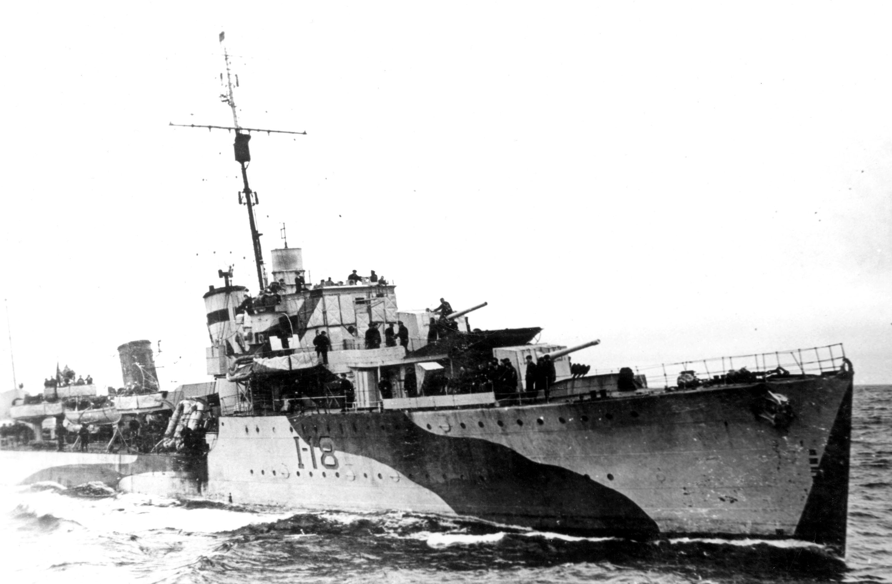 HMCS ASSINIBOINE circa 1943 - 1944. Photo shows Type 271 radar above the bridge, 20mm Oerlikons on the bridge wings and the split Hedgehog on each side of 'A' gun.